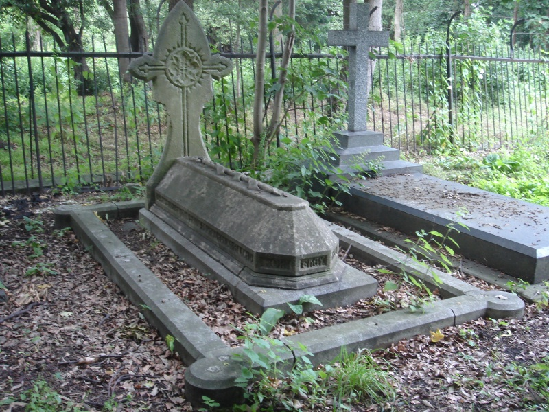 Grave of Charles James Blomfield, All Saints Church (Fulham)